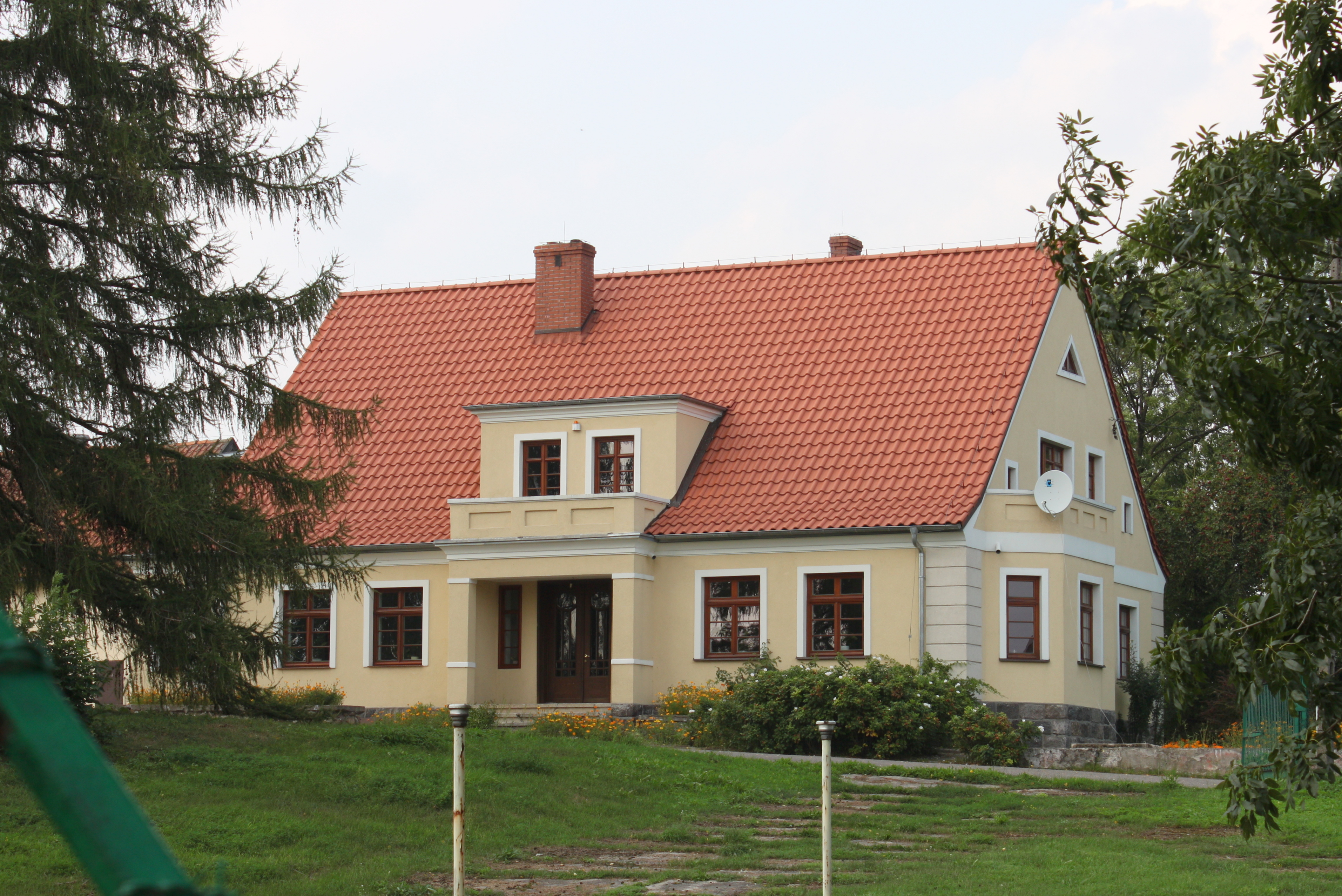 Building in Miętkie.